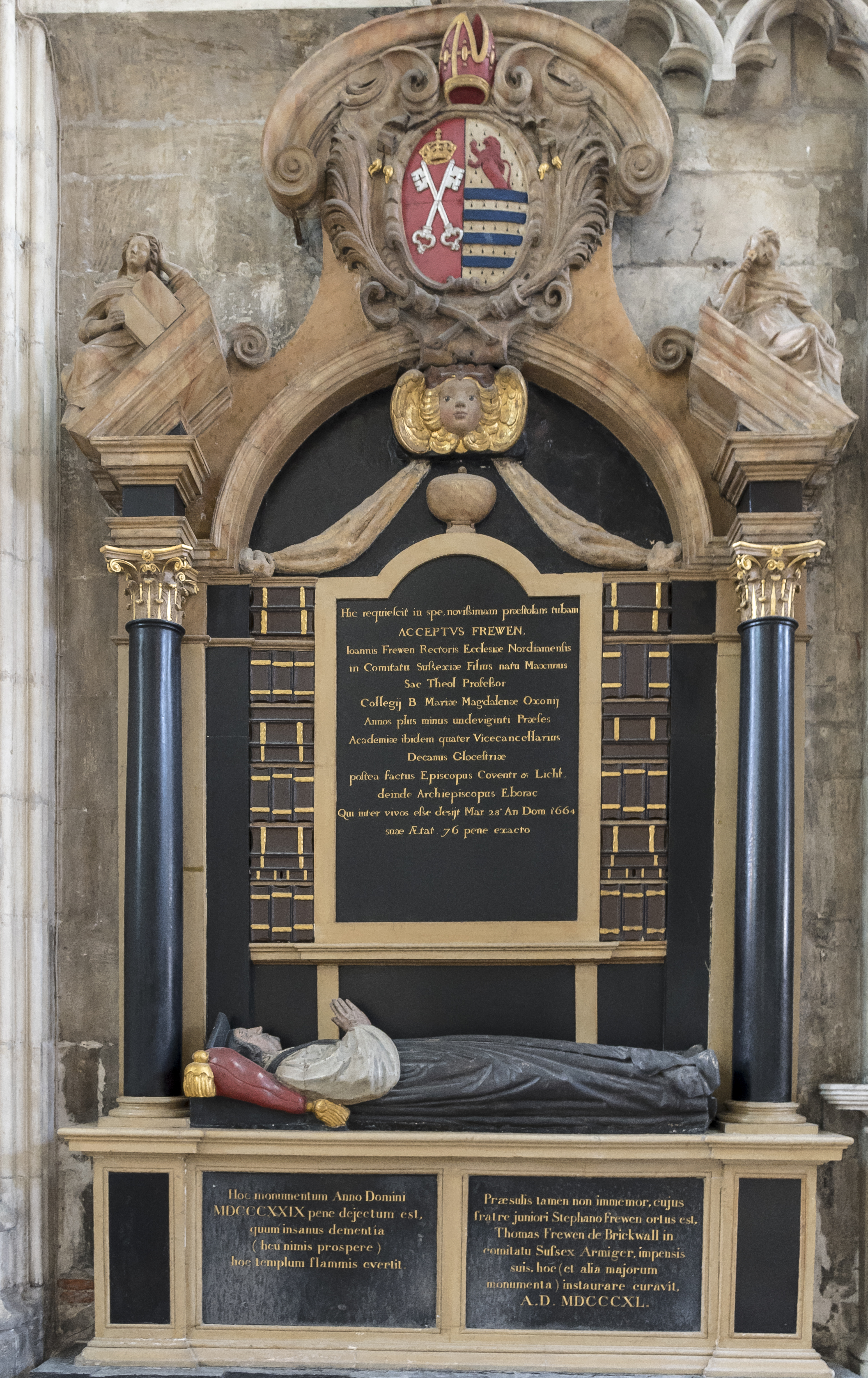 Accepted Frewen d.1664, was Archbishop of York 1660-1664. Also sometime Bishop of Coventry and Dean of Gloucester Cathedral. He was born in Northiam, Sussex.